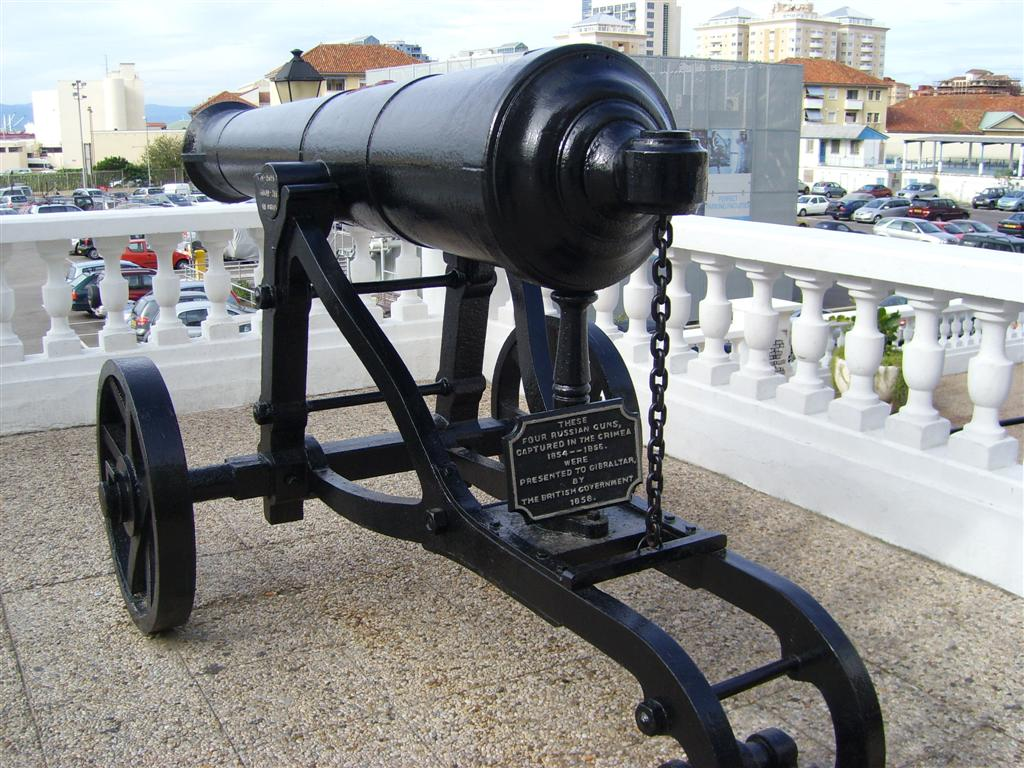 One of two Russian guns from the Crimean War presented to Gibraltar (located in Line Wall Road) by the British Government in 1858.